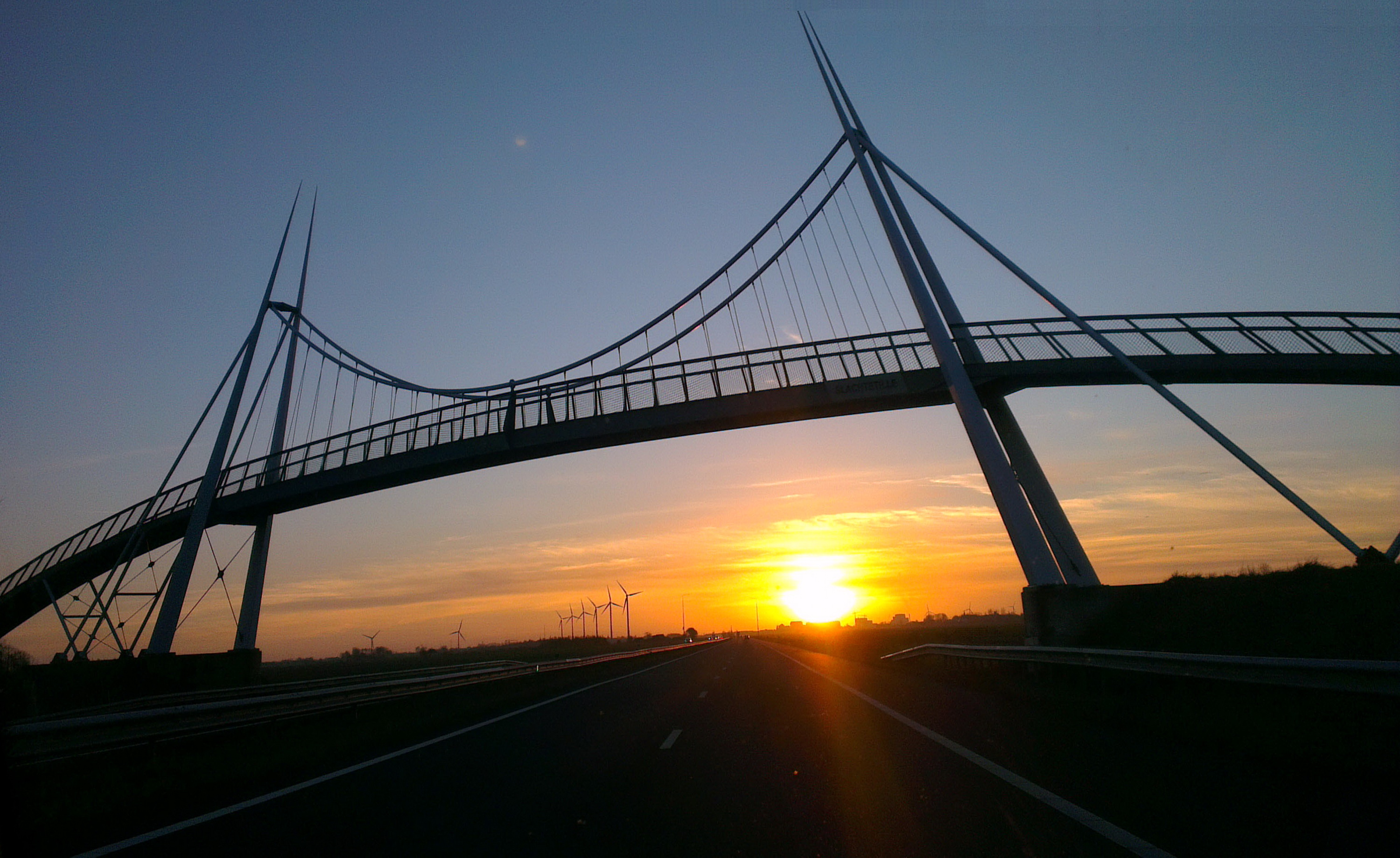 A suspensionbridge in Holland: unbelieveble, but only for walkers and bikes! A photo from my son Bas